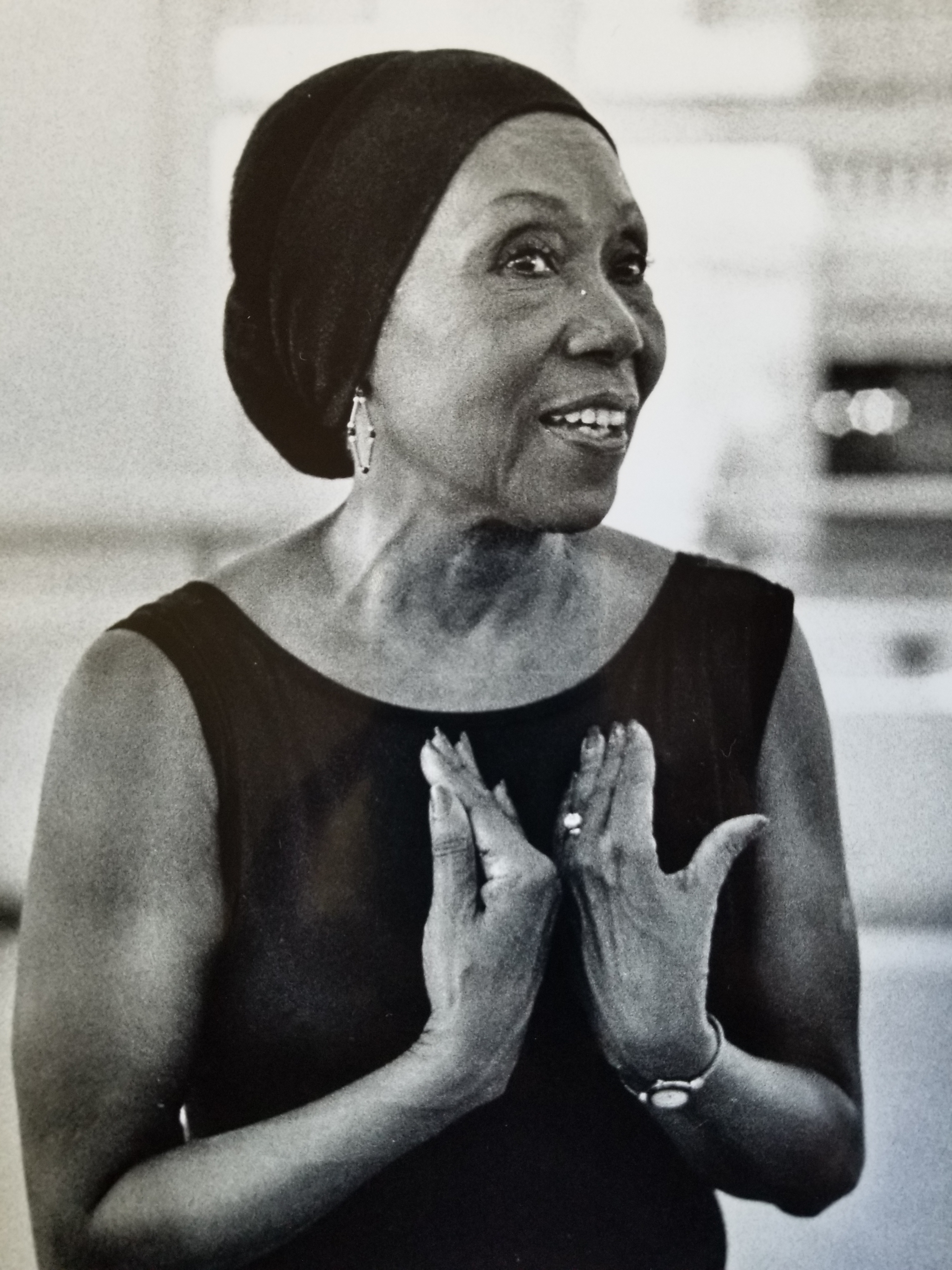 Lavinia Williams teaching her last workshop in NYC at Steps Studio, 1983.